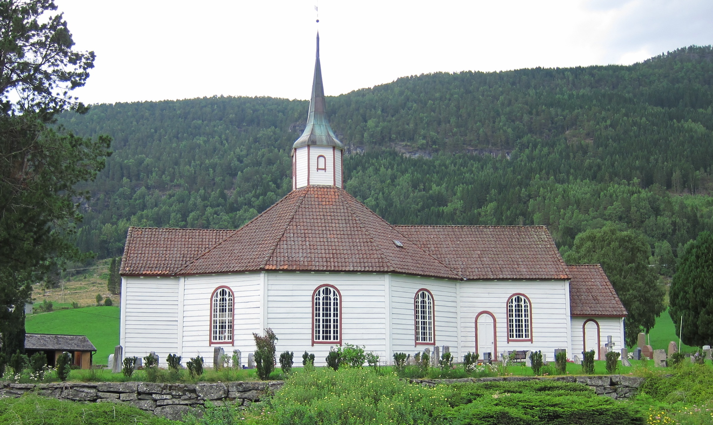 Innvik church, seen from the south towards north, 2014.